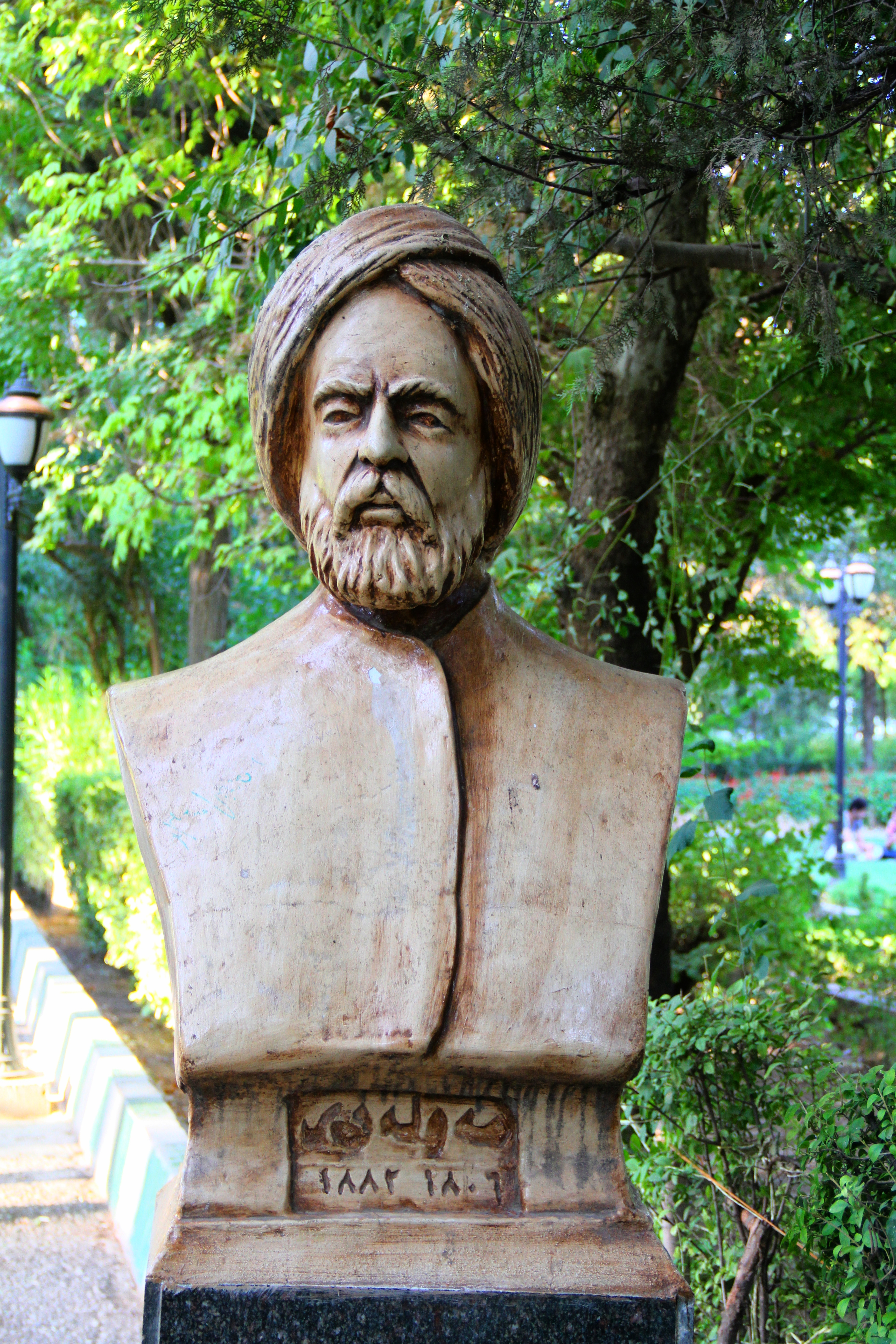 Statue of Kurdish poet Mawlawi in Sulaymaniyah, Kurdistan, Iraq